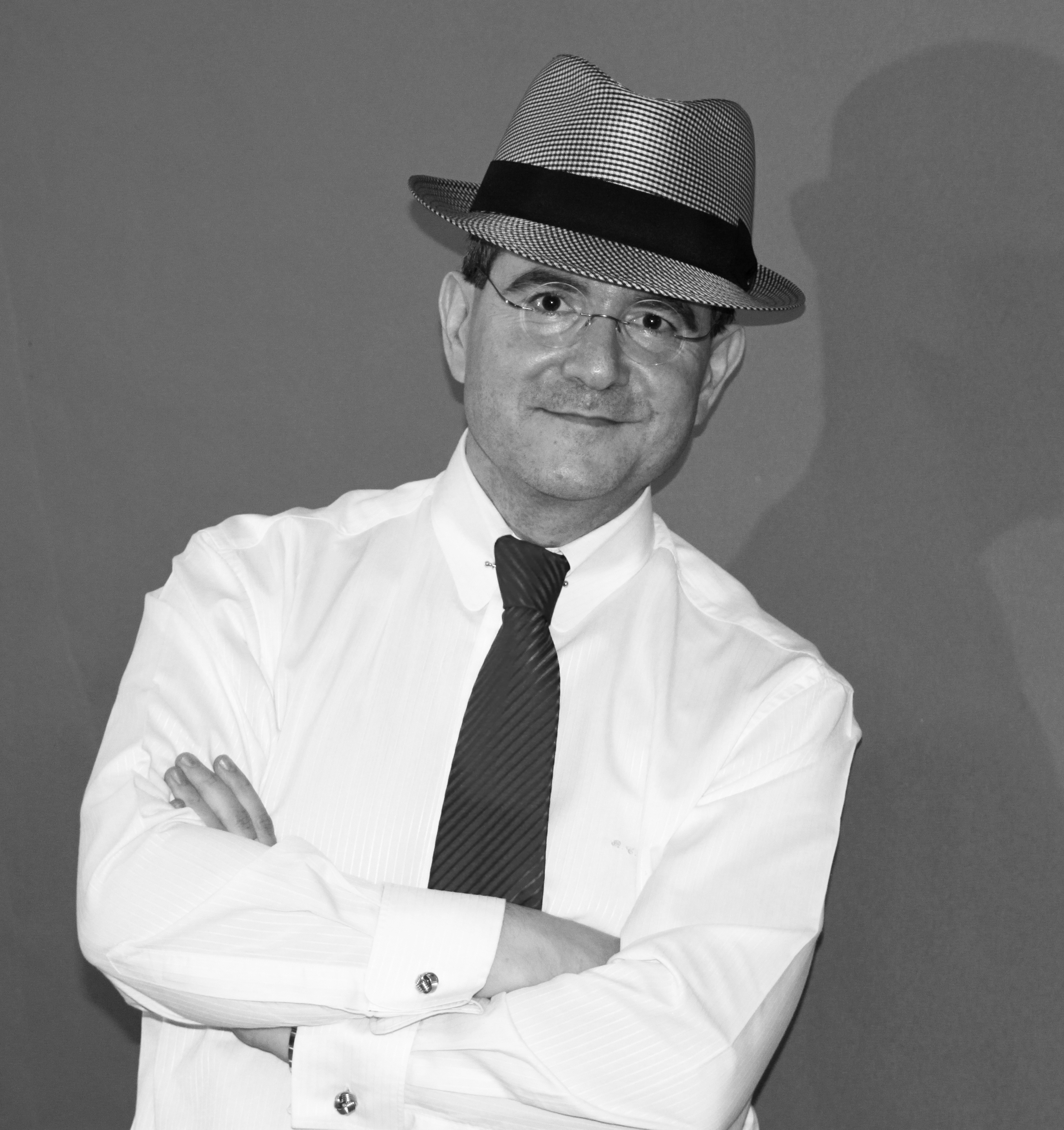 Photograph writer Ramon Cerdà